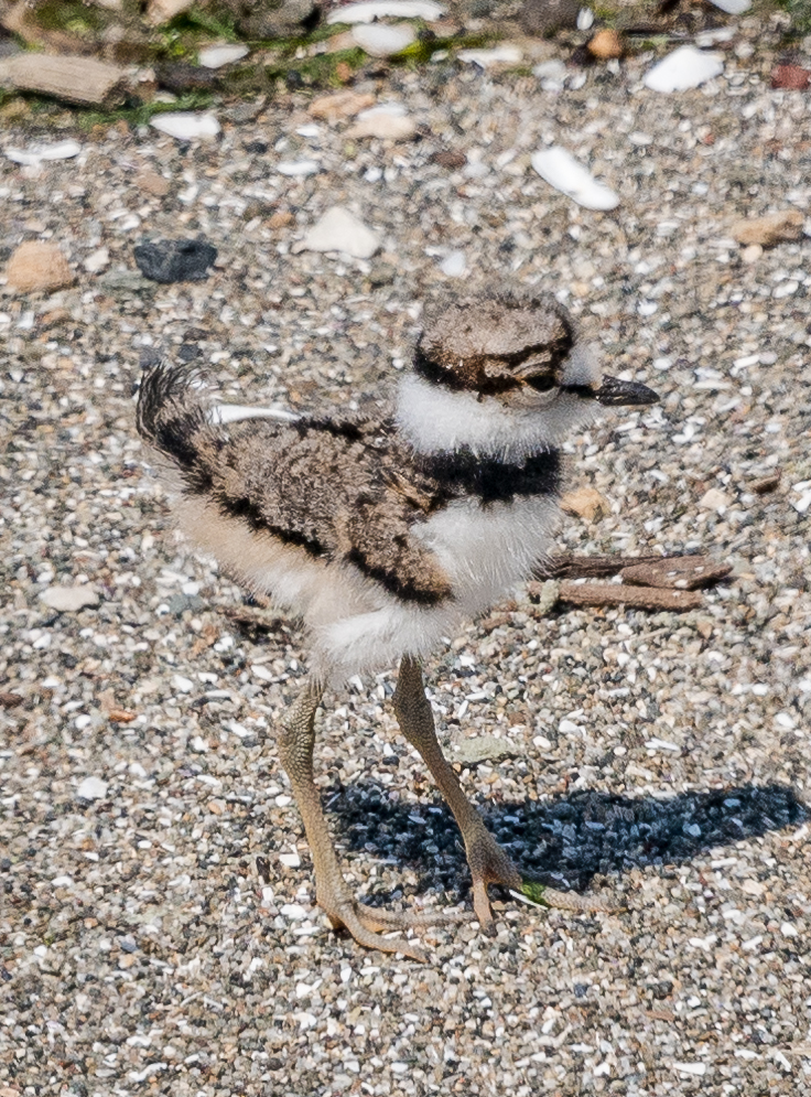 Brooks Island Regional Preserve, Richmond, California There were three of this little cuties as well as two adults running around the sand spit on the western end of the Island. Eventually, all three ran under their mom and hide while she rested on the beach.